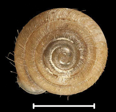 Photo of an apical view of the shell of Endothyrella plectostoma. Locality: UMZC 102155 (syntype, specimen figured by Gude 1897). Scale bar is 5 mm.